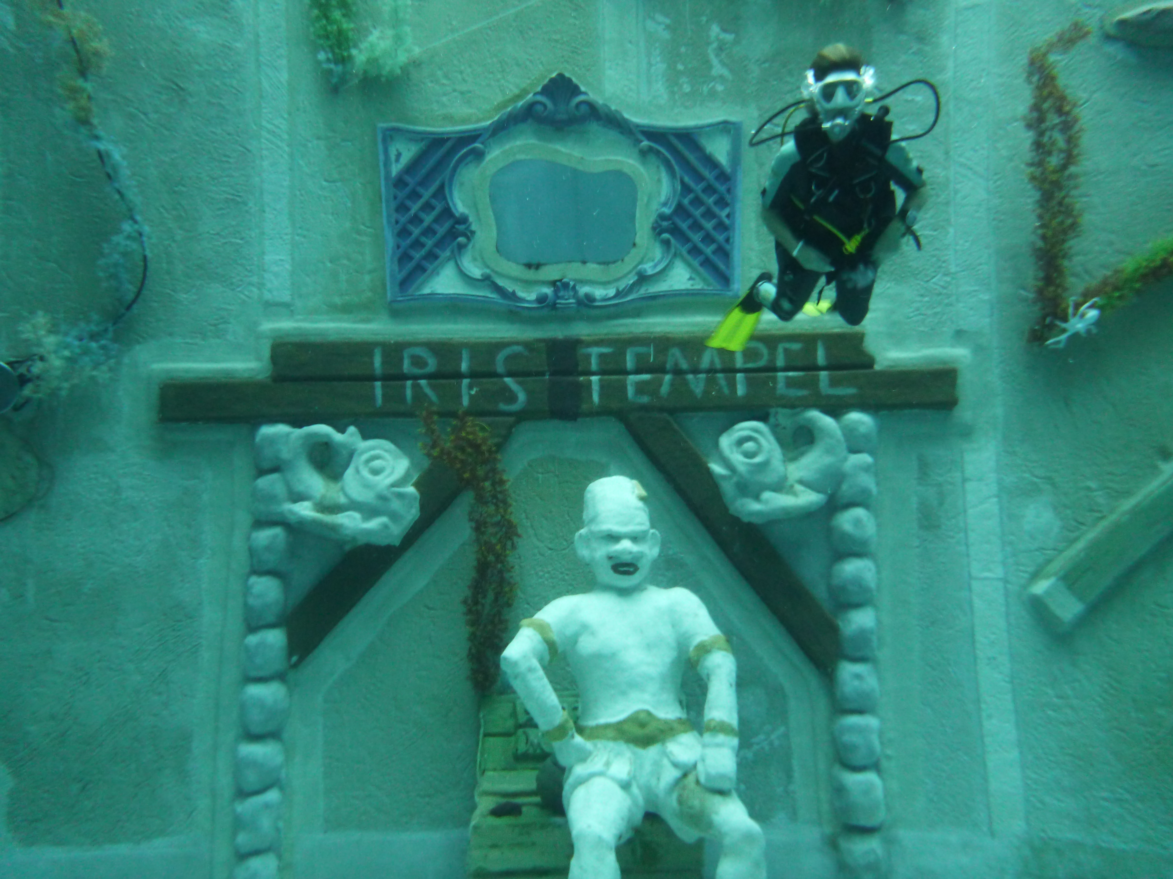 Monte Mare water park and scuba diving in Rheinbach near Bonn. Inside the diving pool